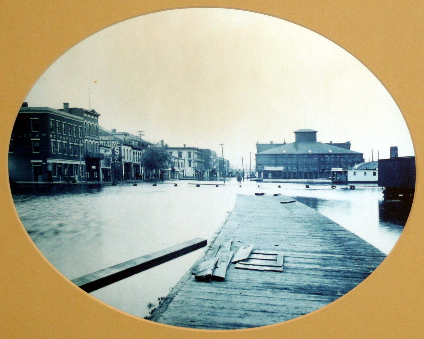 "Front Street during High Water, Davenport, Iowa 1888" at Henry Peter Bosse "Views on the Mississippi" exhibition, Ramsey County Historical Society, Landmark Center, Saint Paul, Minnesota. Photo of a modern reproduction of a Bosse photo from a volume found by the U.S. Corps of Engineers aboard the Dredge William A. Thompson.